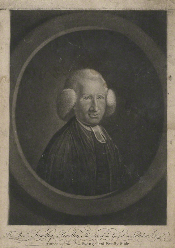 Portrait of Timothy Priestley (1734–1814), English Independent minister.